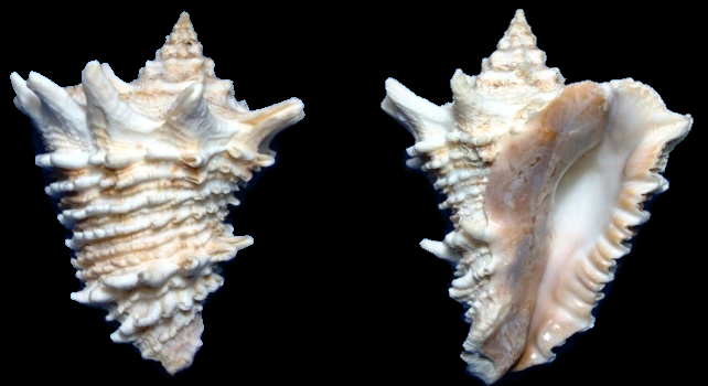 A shell of Vasum cassiforme (Kiener, L.C., 1841) from my personal collection.